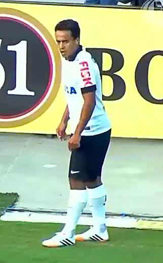 Jadson in Corinthians.